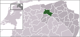 Locator map of Dutch municipalities in Groningen (LocatieZuidhorn.png)